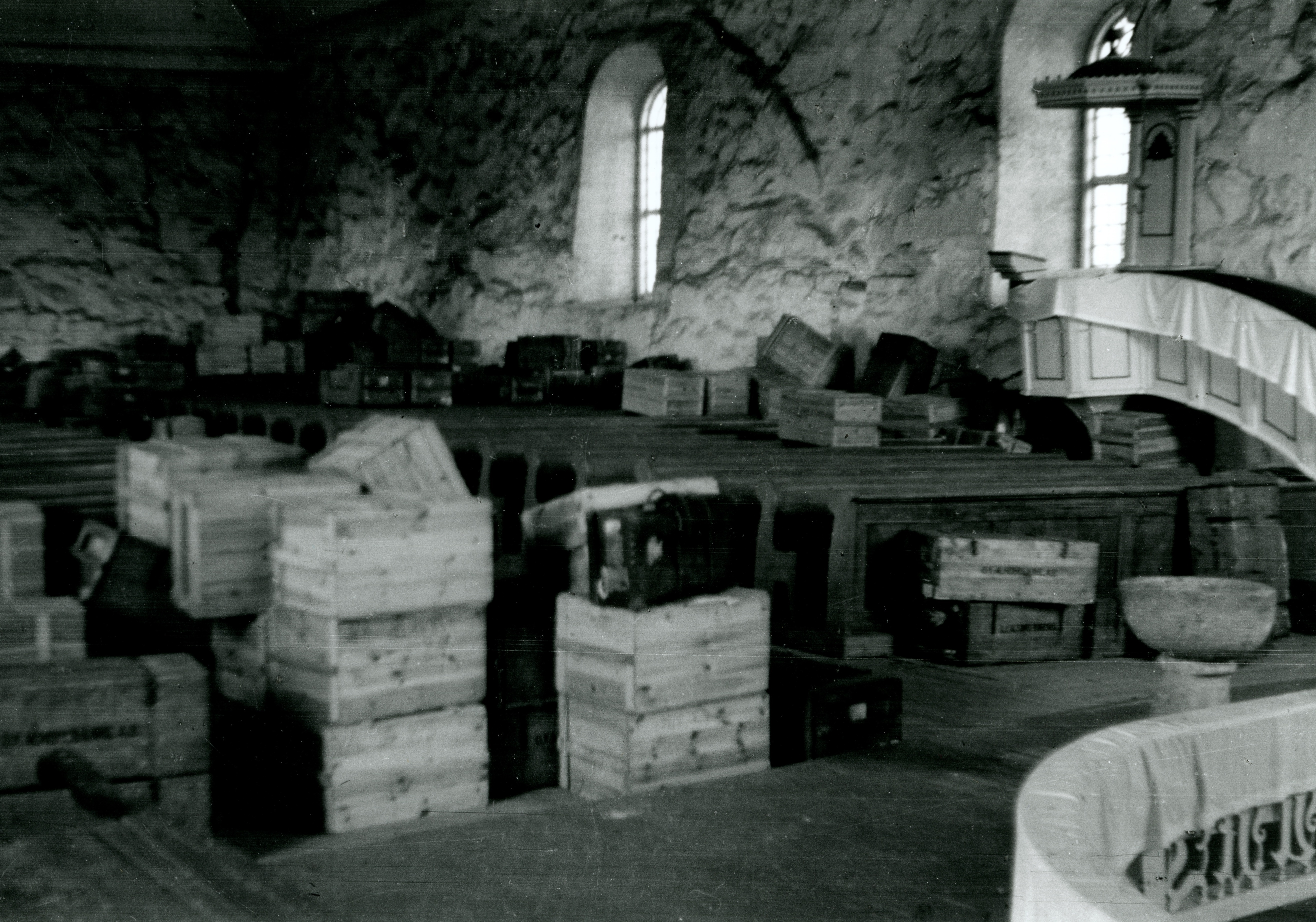 Documents evacuated from the National Archives due to the war in Karkku church in 1945.